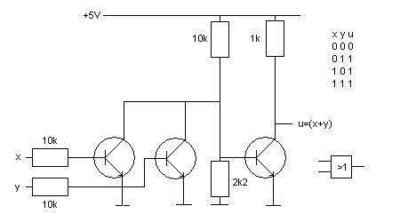 OR Gate